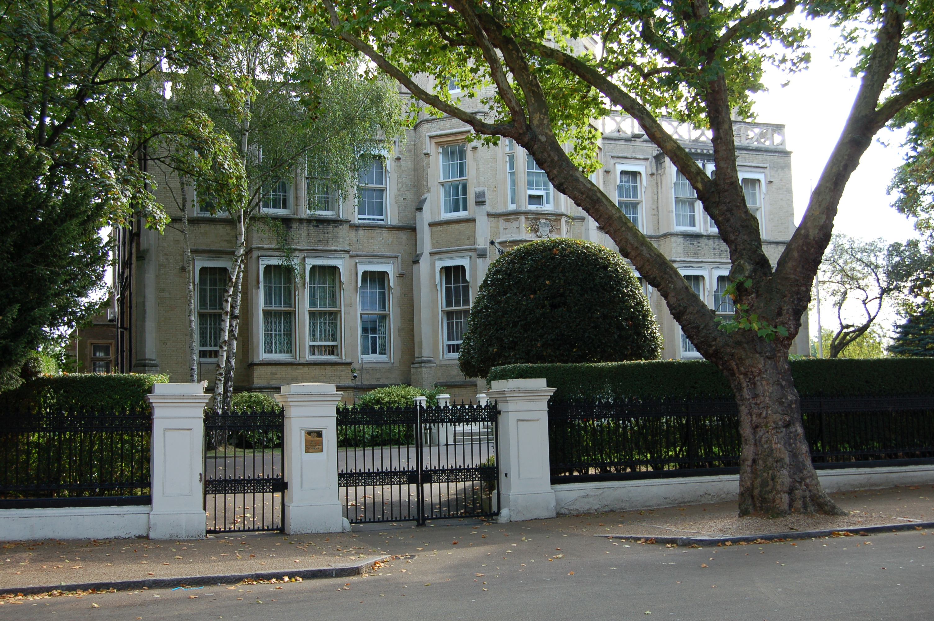 My own work, reproduction with attribution. Kevin Thompson 13 Kensington Palace Gardens, residence of the Russian ambassador to London.